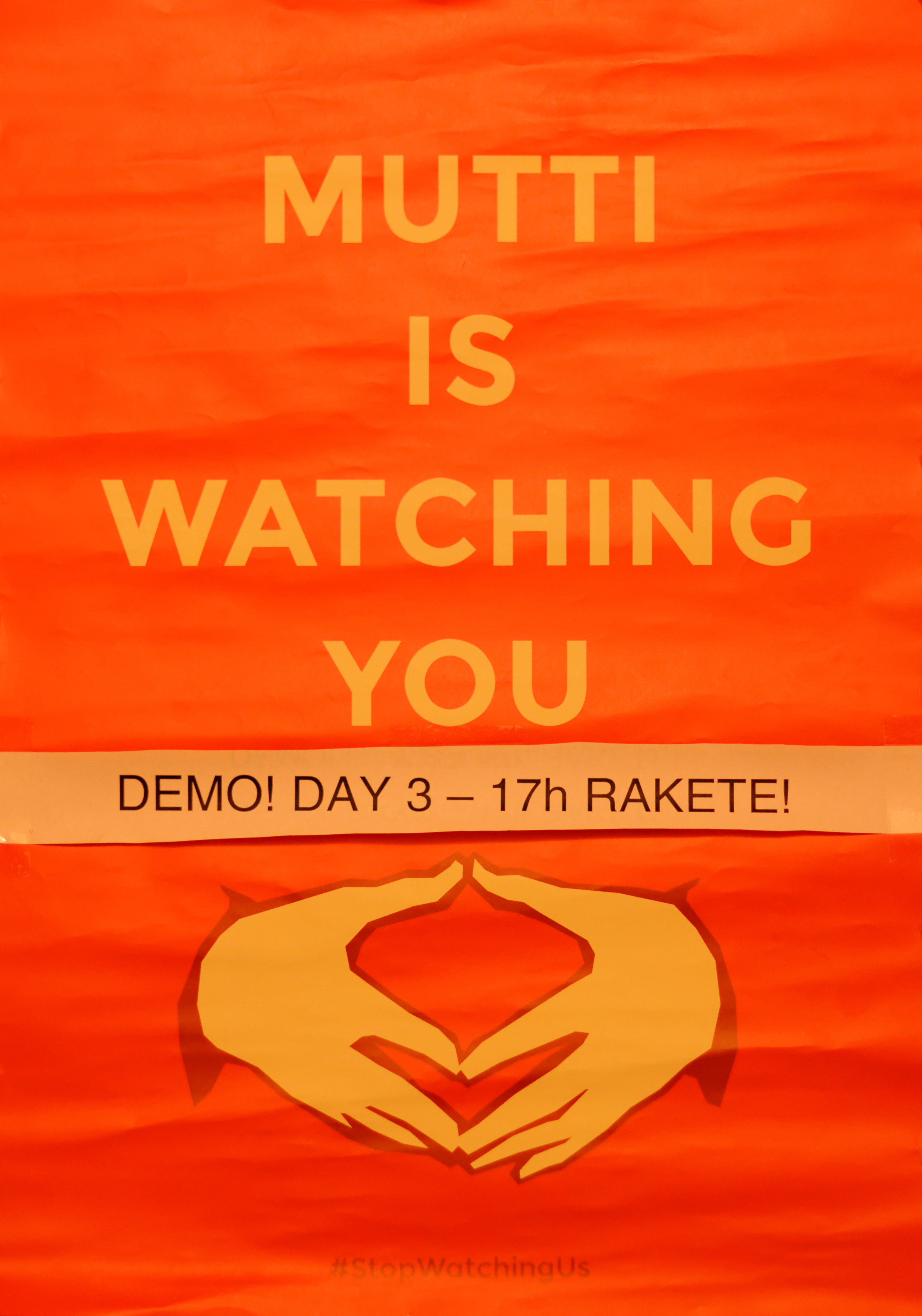 Poster "Mutti is watching you" at 31C3 Demo (29.12.2014) with Merkel-Raute